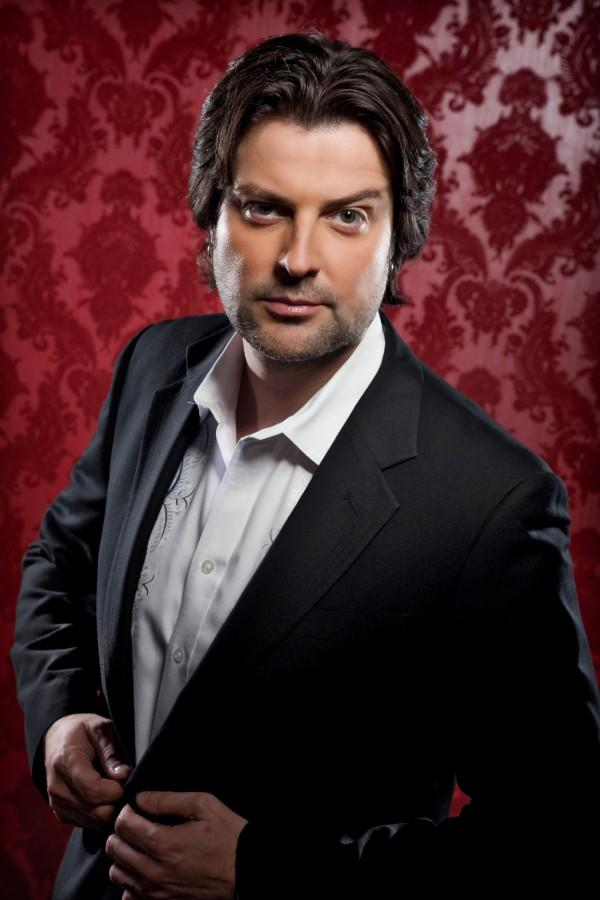 Convicted Felon Robin DiMaggio in 2009.